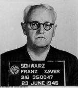 Detention report of Franz Xaver Schwarz, Treasurer of the Nazi Party, 23/06/1945